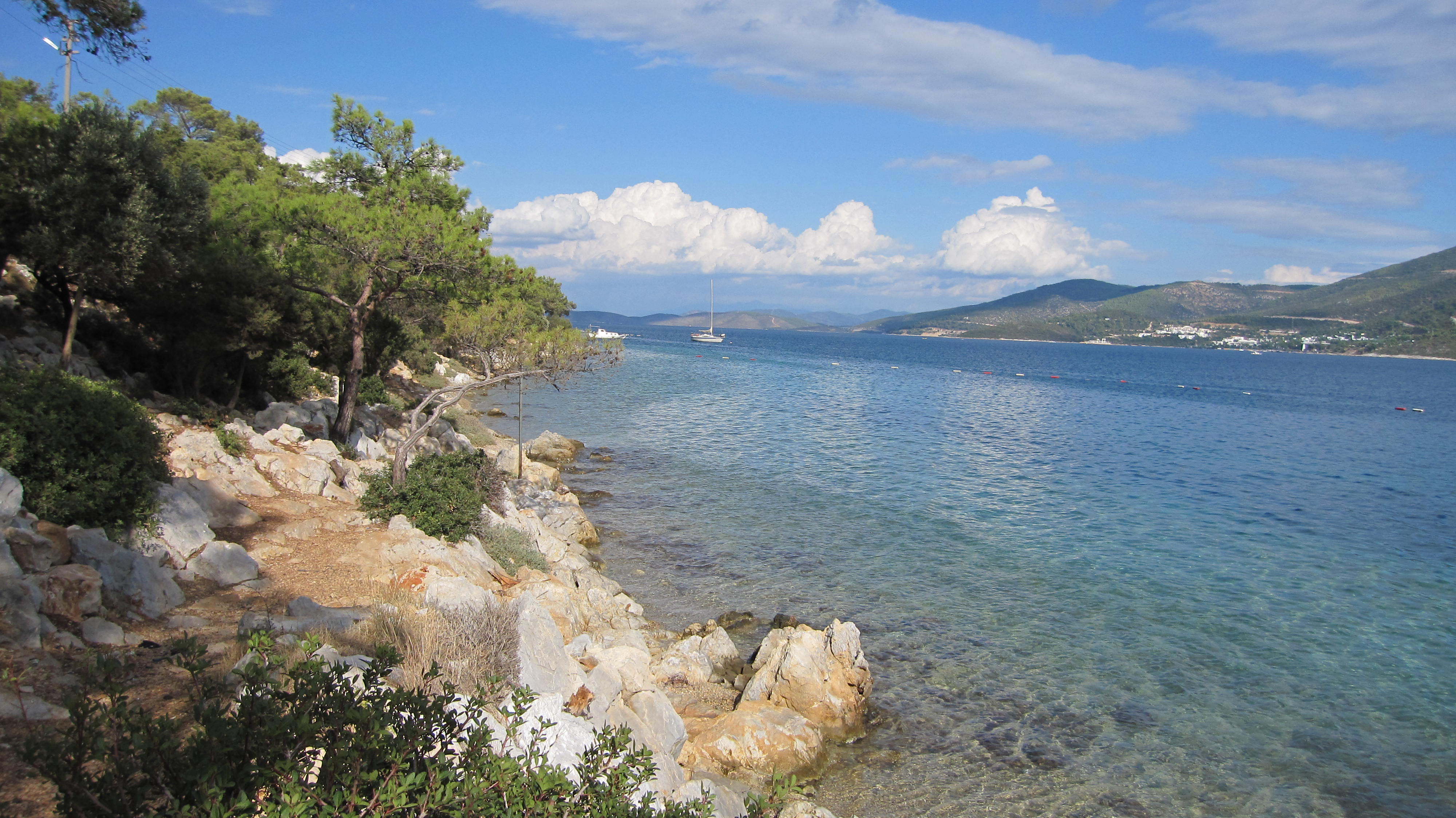 public picnic area